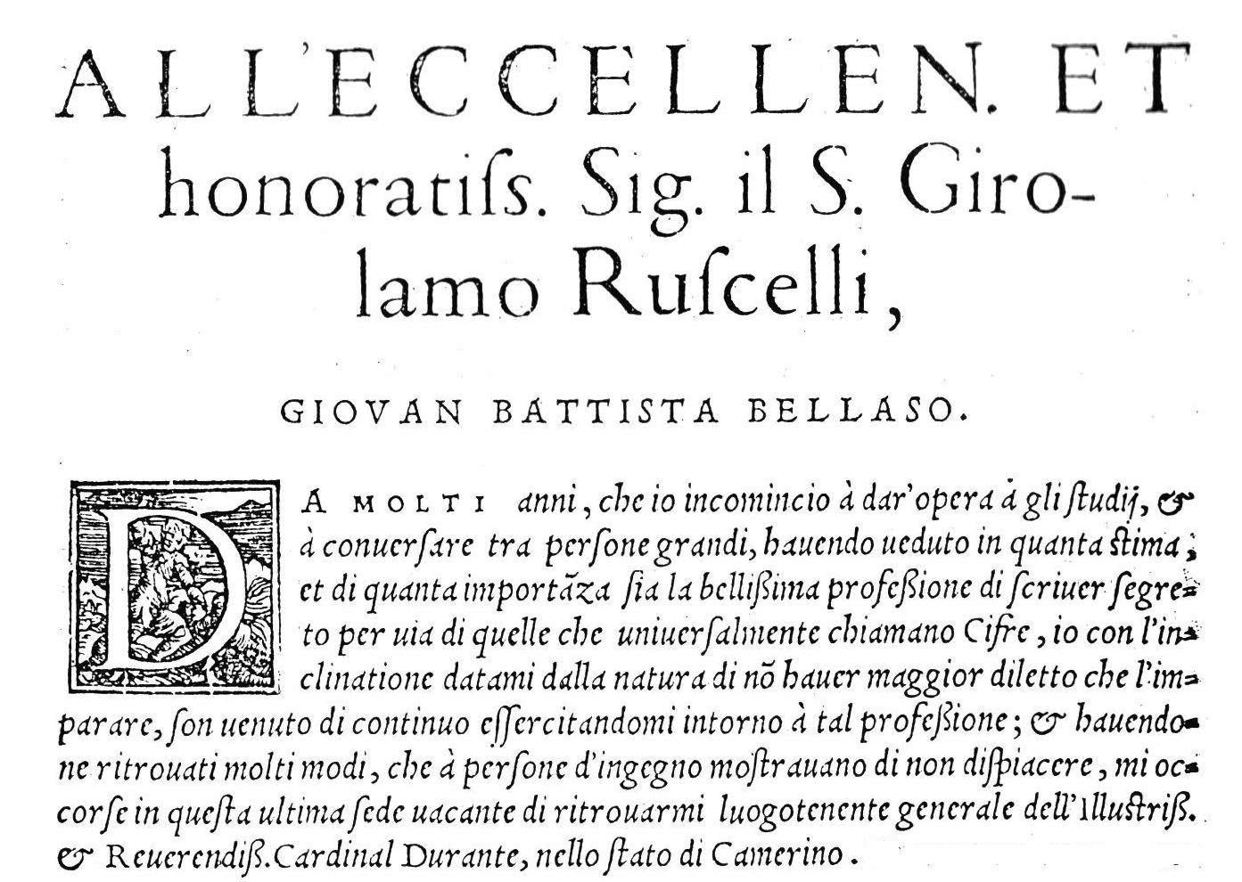 Dedica tratta da un'opera di Giovan Battista Bellaso.